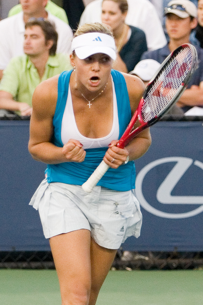 Maria Kirilenko gets pumped up after winning a point during her doubles win with Ana Ivanovic at the 2006 US Open.